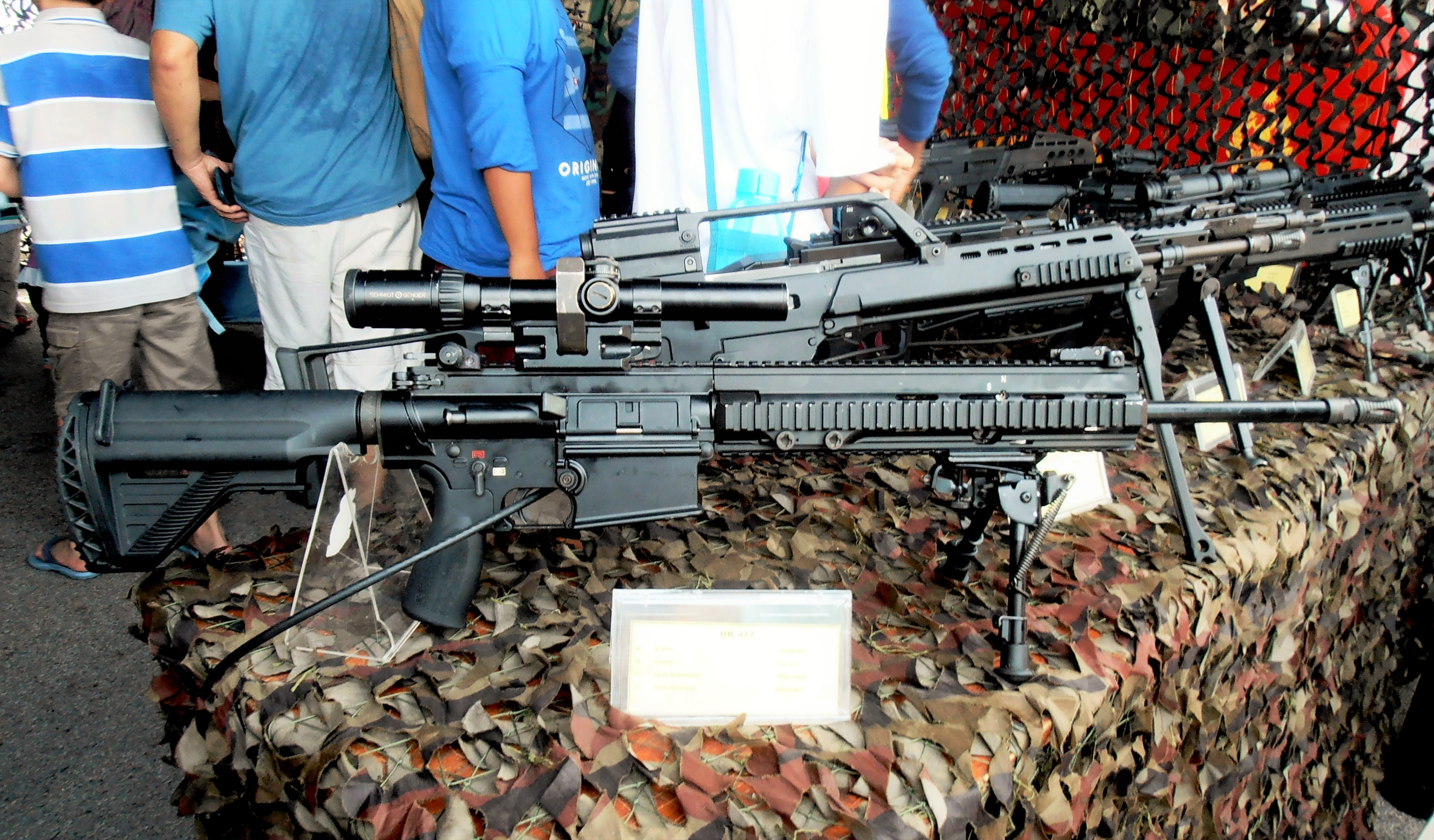 LUMUT (May 01, 2016) A German Heckler & Koch HK417 sniper rifle used by PASKAL on display at a PASKAL exhibition booth during 82nd Anniversaries of Royal Malaysian Navy, Lumut, Perak, Malaysia.